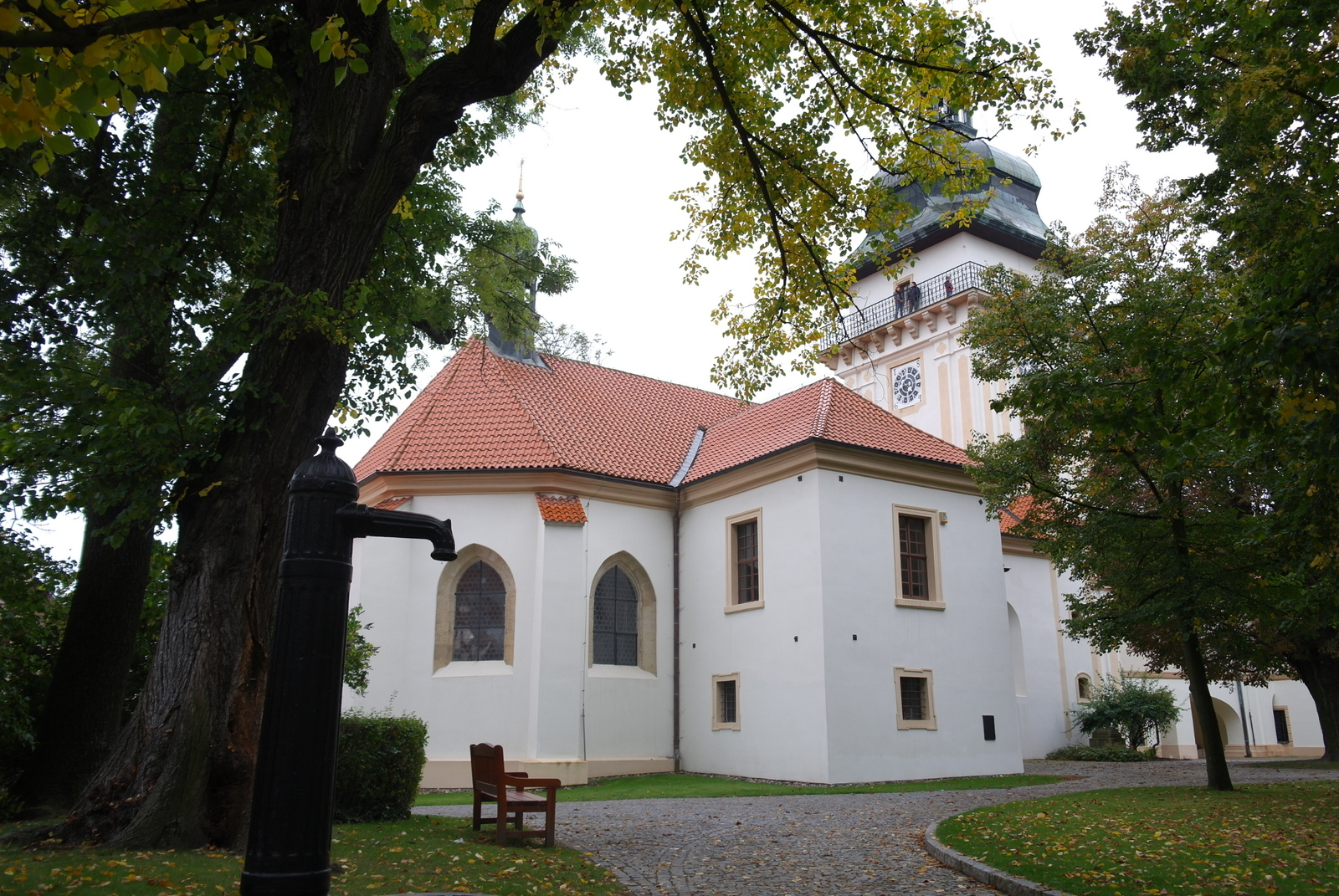 Chateau Benátky nad Jizerou, Husovo sq. 49, Benátky nad Jizerou The chateau Church of the Nativity of the Virgin Mary A view from NE